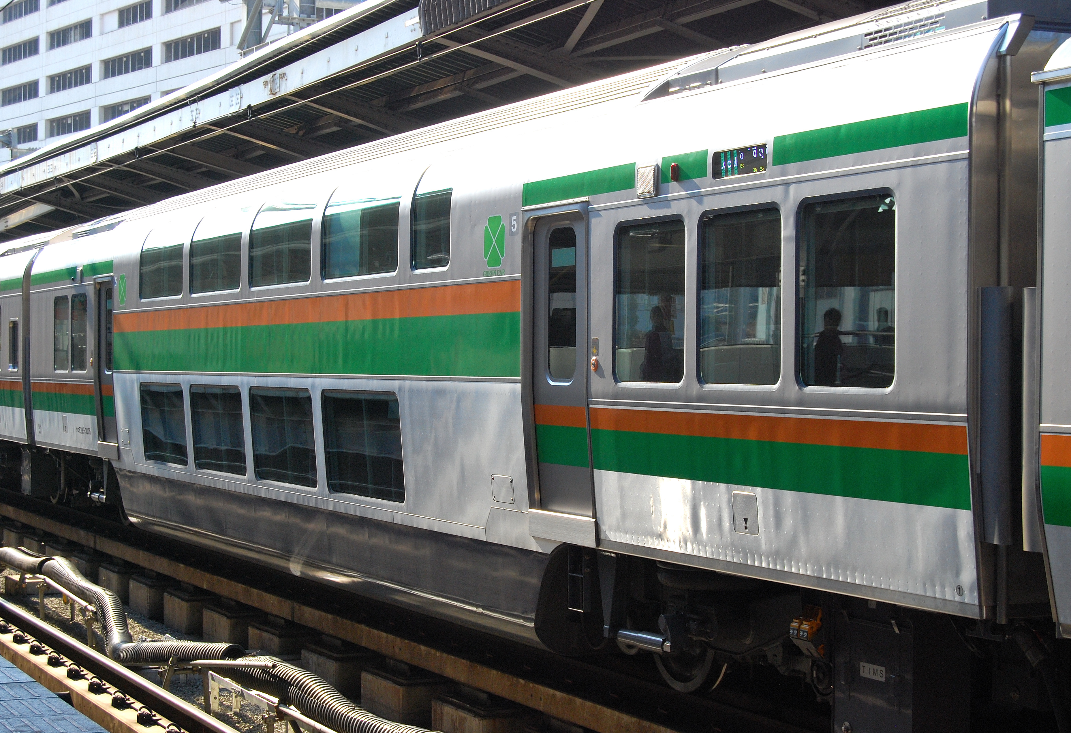 JR East E233-3000 series EMU bilevel Green car SaRo E233-3005 at Yokohama Station